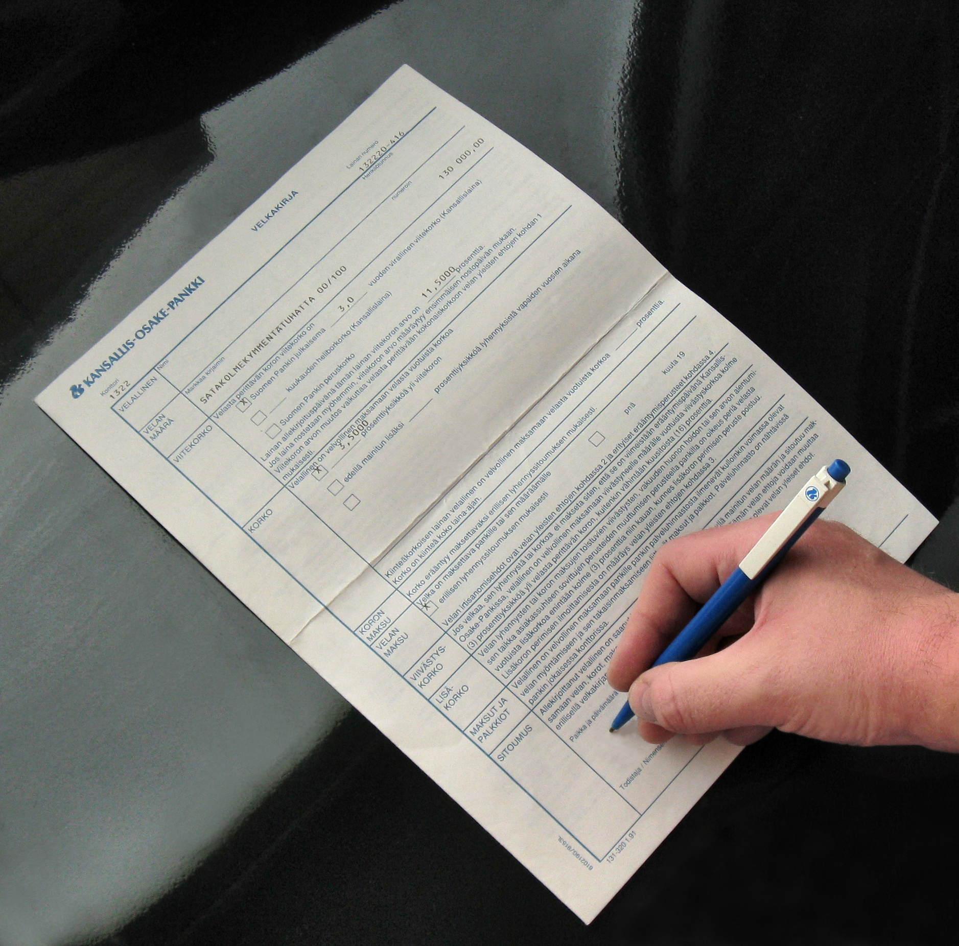 Kansallis-Osake-Pankki velkakirja